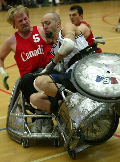 Canada's Garett Hickling and David Willsie vs USA's Bryan Kirkland, at a wheelchair rugby game. International Wheelchair Rugby Federation, Wheelchair rugby game